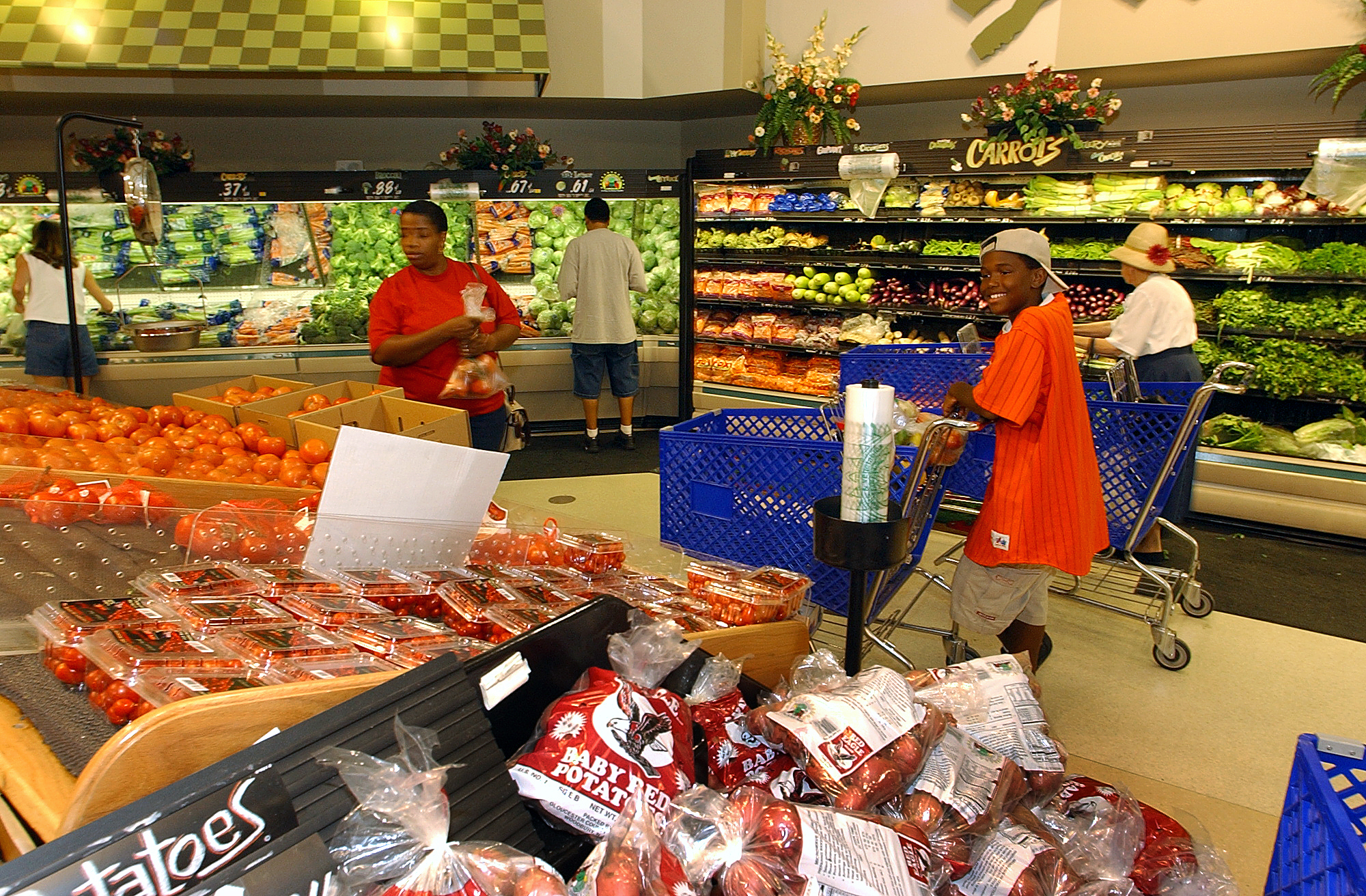 Virginia Beach, Va. (Aug 13, 2002) -- Military dependents shop in the Commissary located just outside Naval Air Station Oceana. U.S. Navy photo by Photographer's Mate 1st Class Michael W. Pendergrass. (RELEASED)